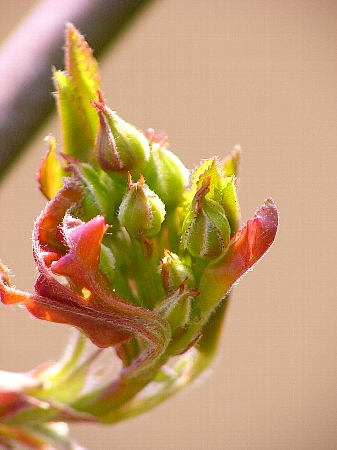 Sprout of Lady Banks rose. Taken in Japan.